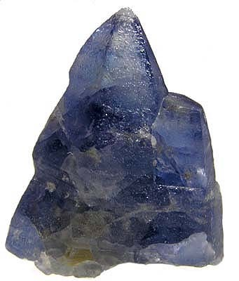 Corundum, Corundum (Var.: Sapphire) Locality: Mogok, Pyin Oo Lwin District, Mandalay Division, Burma (Myanmar) (Locality at ) A VERY RARE somewhat gemmy, translucent, SHARP, mogok sapphire. Most specimen sapphires are from Sri Lanka while in Mogok, rubies rule (it is "the land of rubies" after all!) 2.5 x 2.0 x 1.5 cm